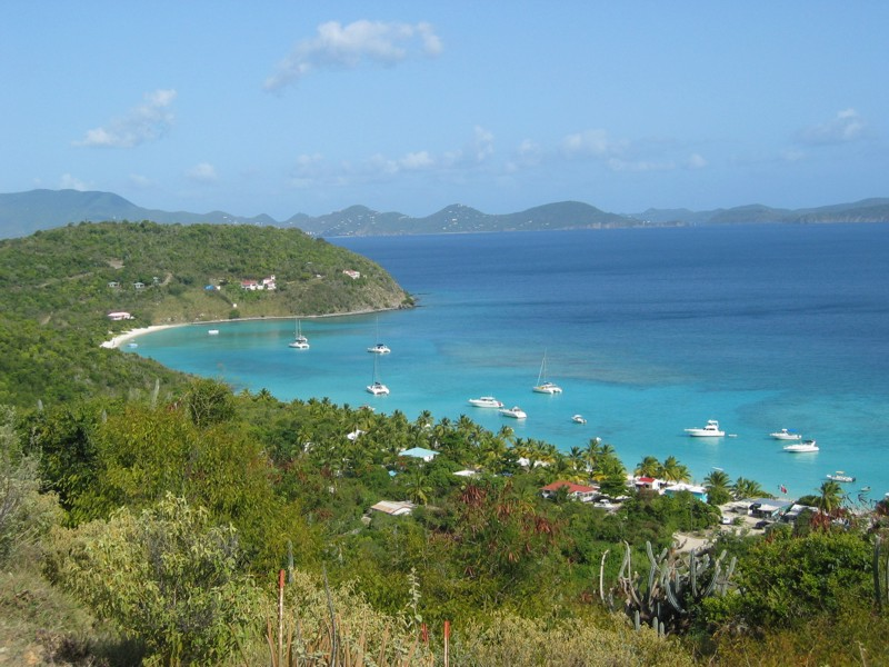 View of White Bay from the hills of Jost Van Dyke, BVI